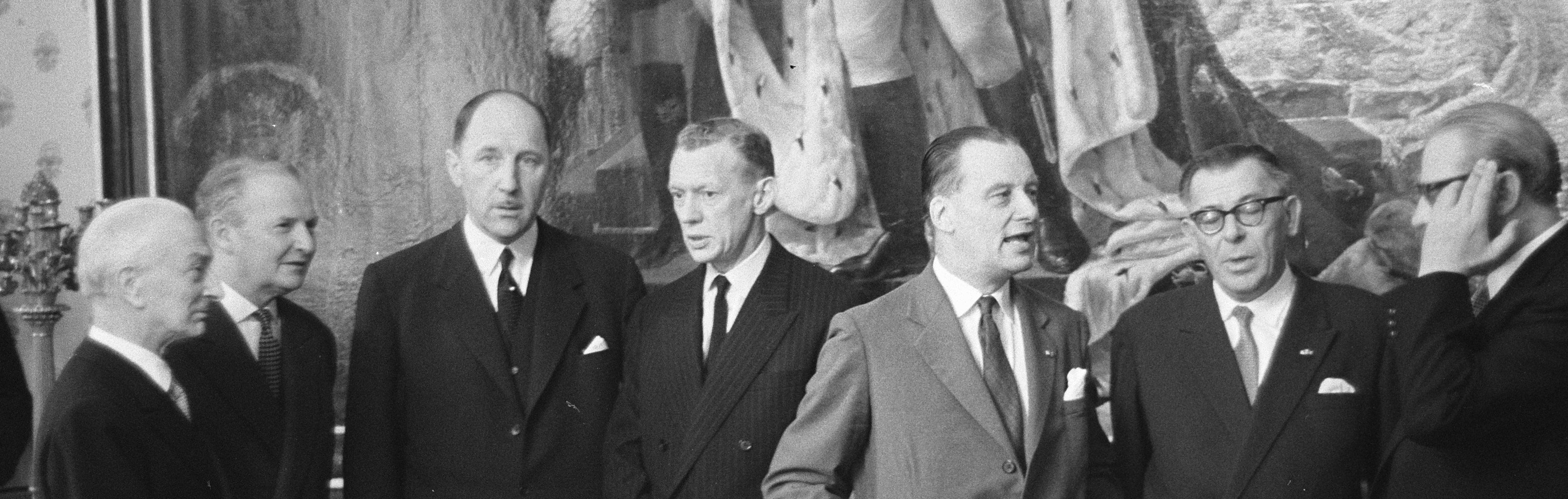 Seven European foreign ministers. Left to right: Antonio Segni, Selwyn Lloyd, Joseph Luns, Maurice Couve de Murville, Pierre Wigny, Eugène Schaus, Heinrich von Brentano